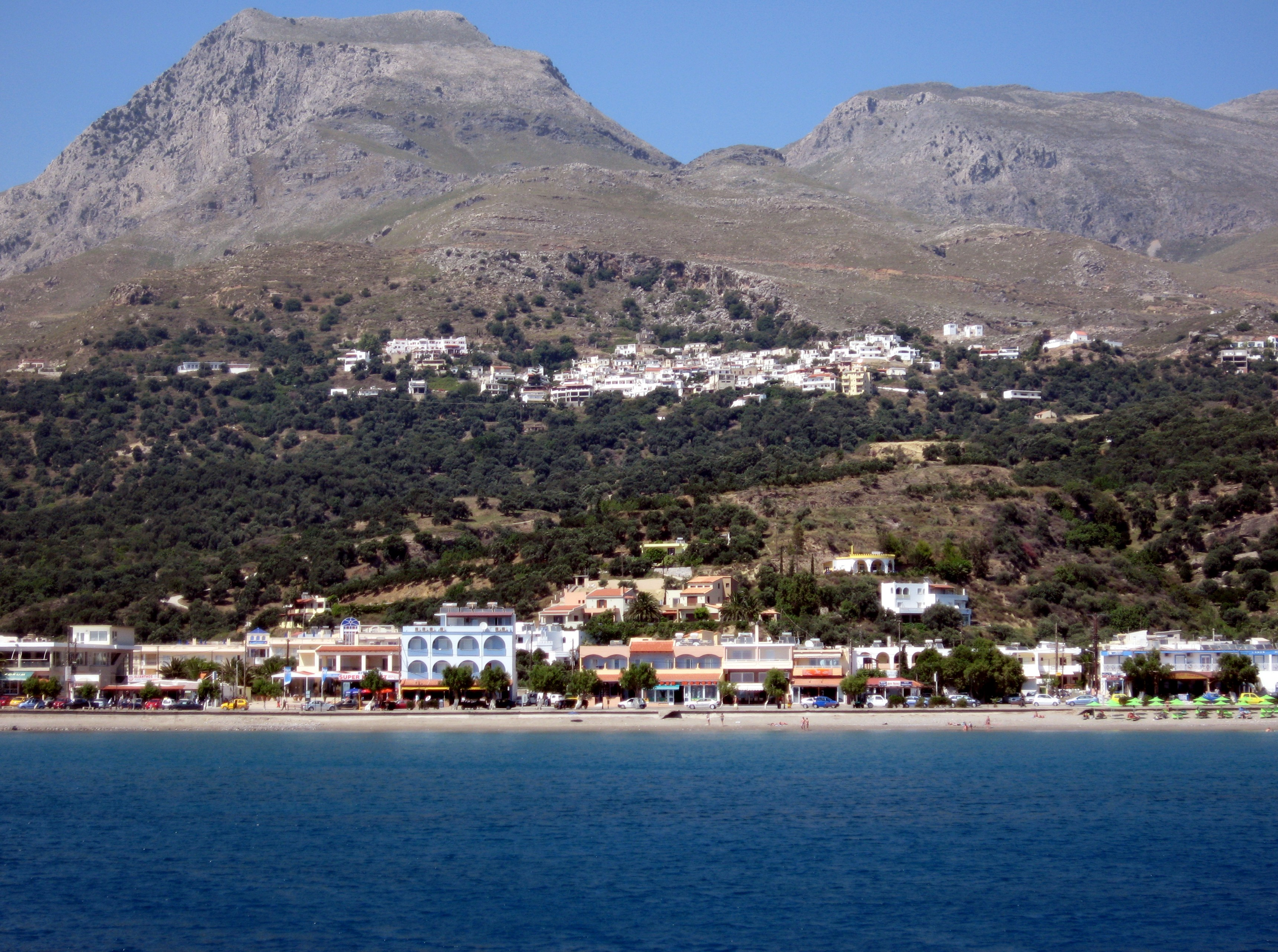 Plakias and Myrthios, Dimos Finikas, Nomos Rethymno, Crete, Greece